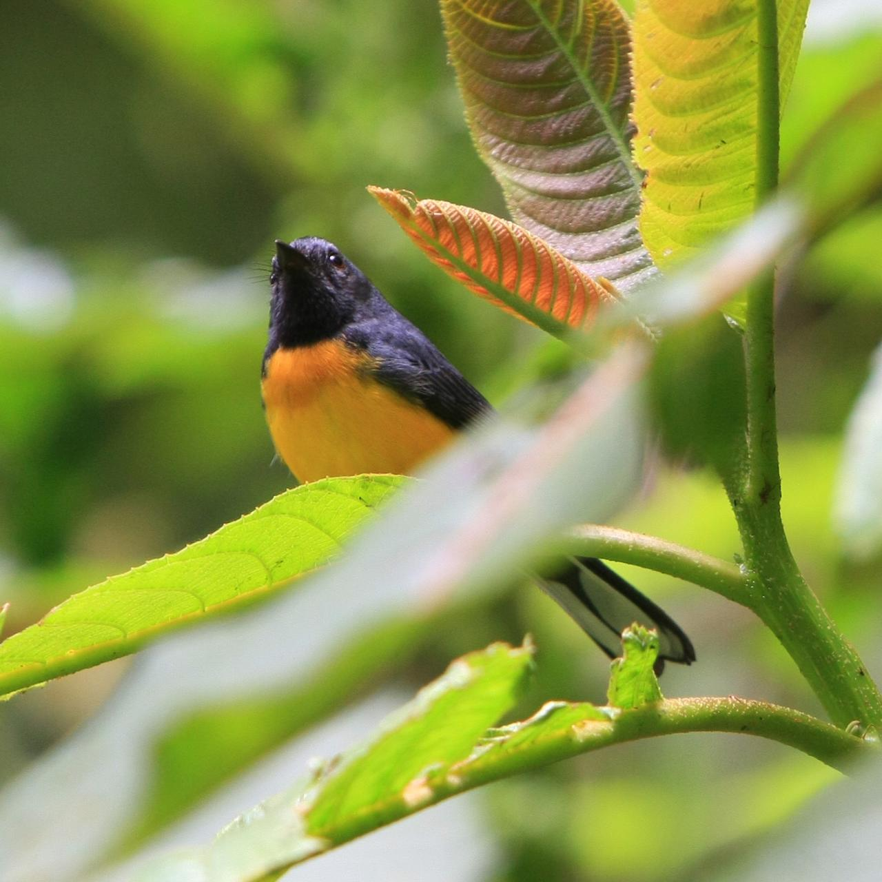 Myioborus miniatus — Slate-throated Redstart (also called the Slate-throated Whitestart). In the Monteverde Cloud Forest Reserve, Cordillera de Tilarán, Puntarenas Province, Costa Rica.